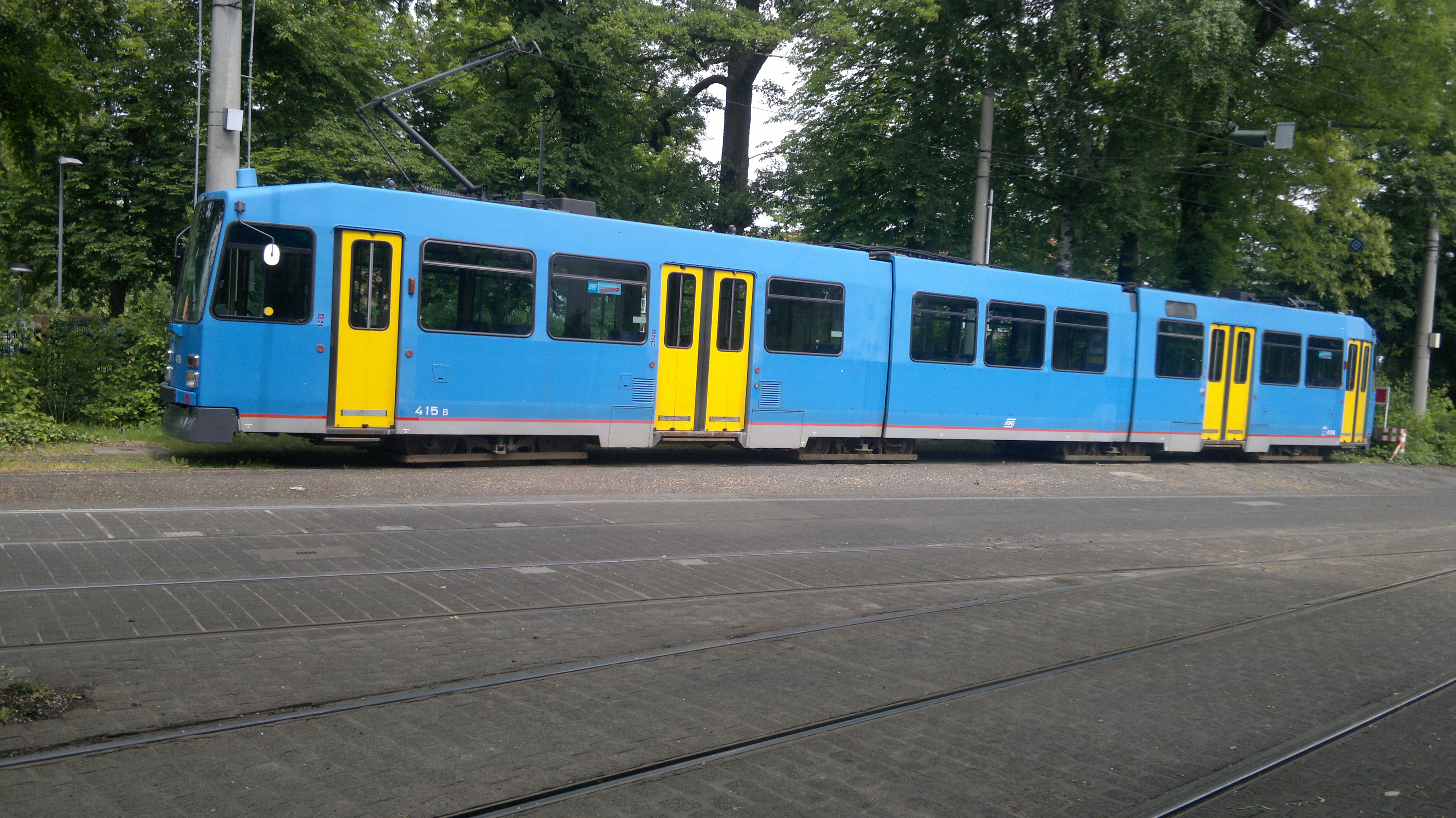 Alte straßen bahn